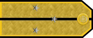 Russian Empire Navy Lejtnant epaulette